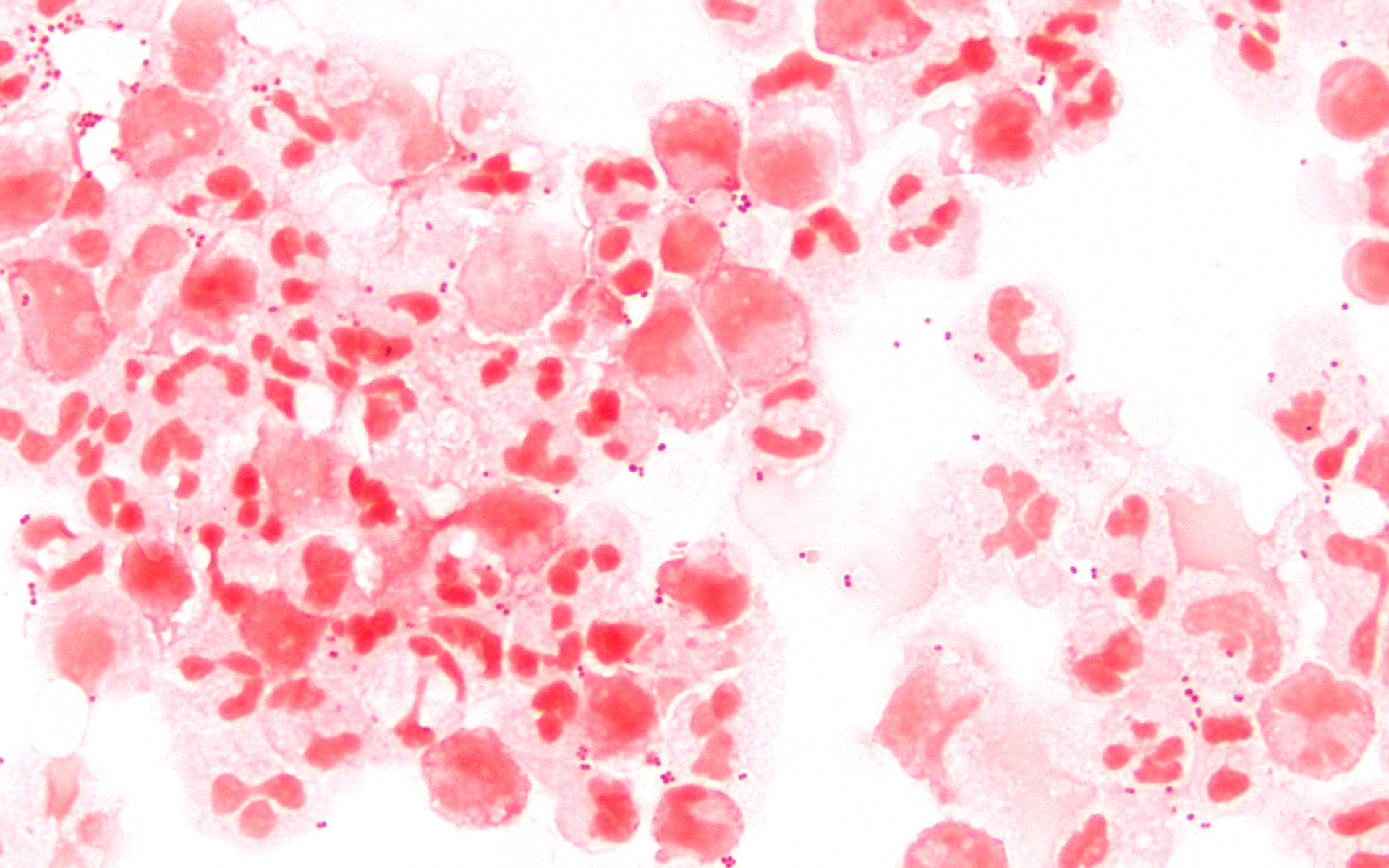 Photomicrograph of a Gram stain of spinal fluid at 1000 times magnification. Neisseria meningitidis grew from this spinal fluid. The classic Gram negative diplococci morphology is visible here.